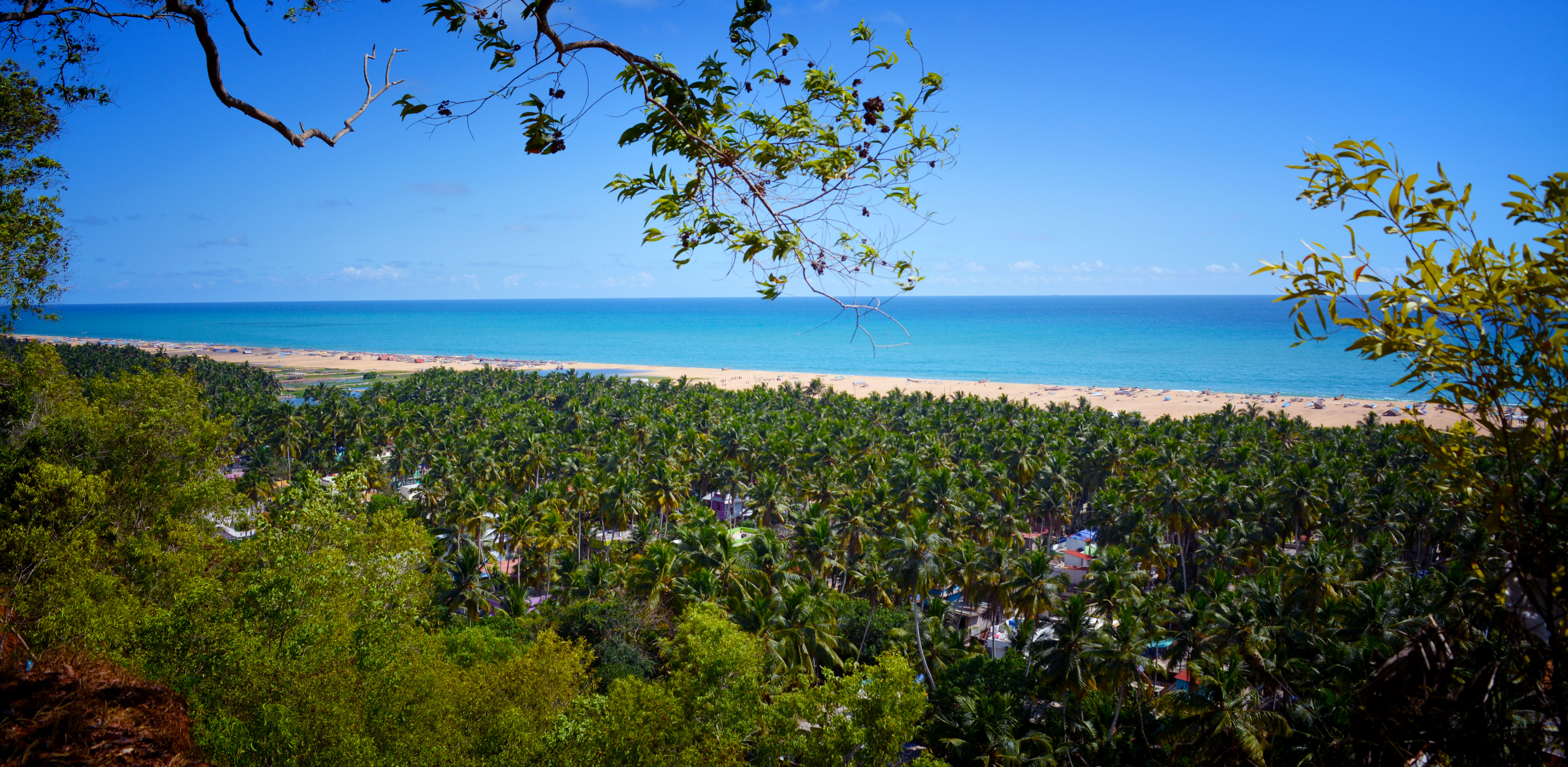 Adimalathura beach view from the nearby cliff in Trivandrum City, India.